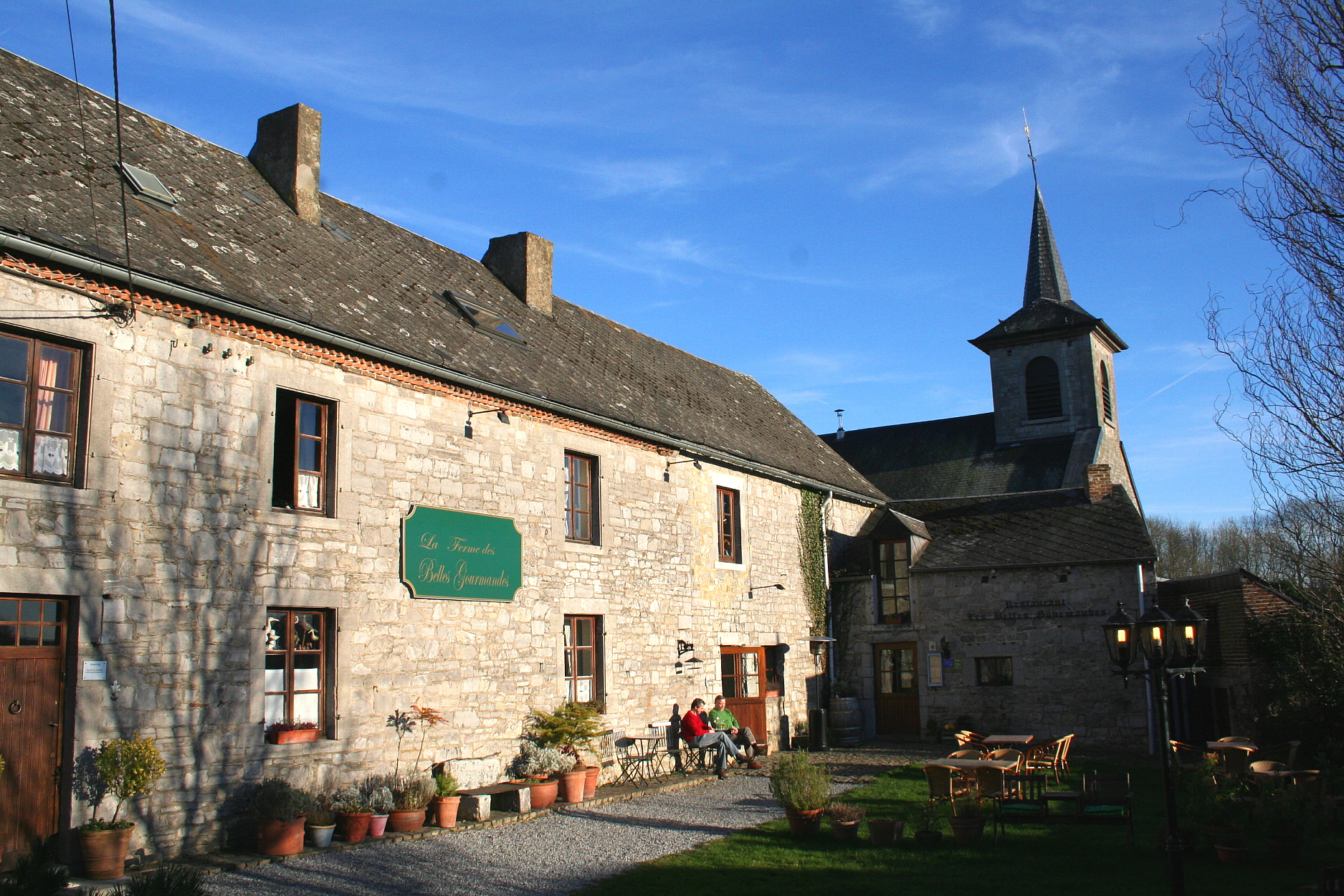 Furfooz (Belgium), former farm (XVIIIth century).